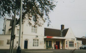 Photo taken by publunch in September 2005. It would be nice to take another shot when the sky is bluer, as the building fades into the background in this one.